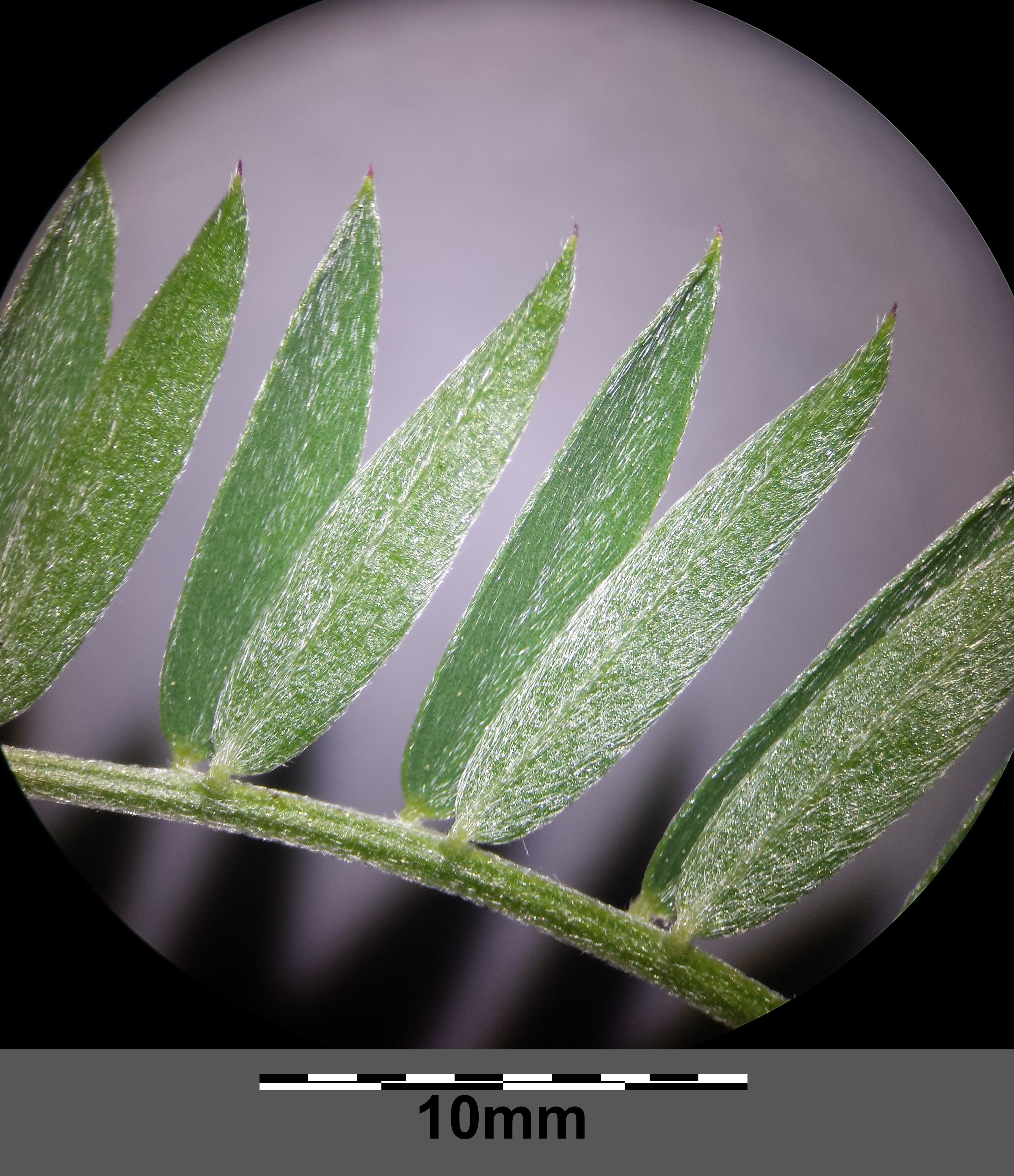 Leaf with leaflets Taxonym: Vicia tenuifolia ss Fischer et al. EfÖLS 2008 ISBN 978-3-85474-187-9 Location: near Niederhollabrunn, district Korneuburg, Lower Austria - ca. 350 m a.s.l. Habitat: semi-dry grassland